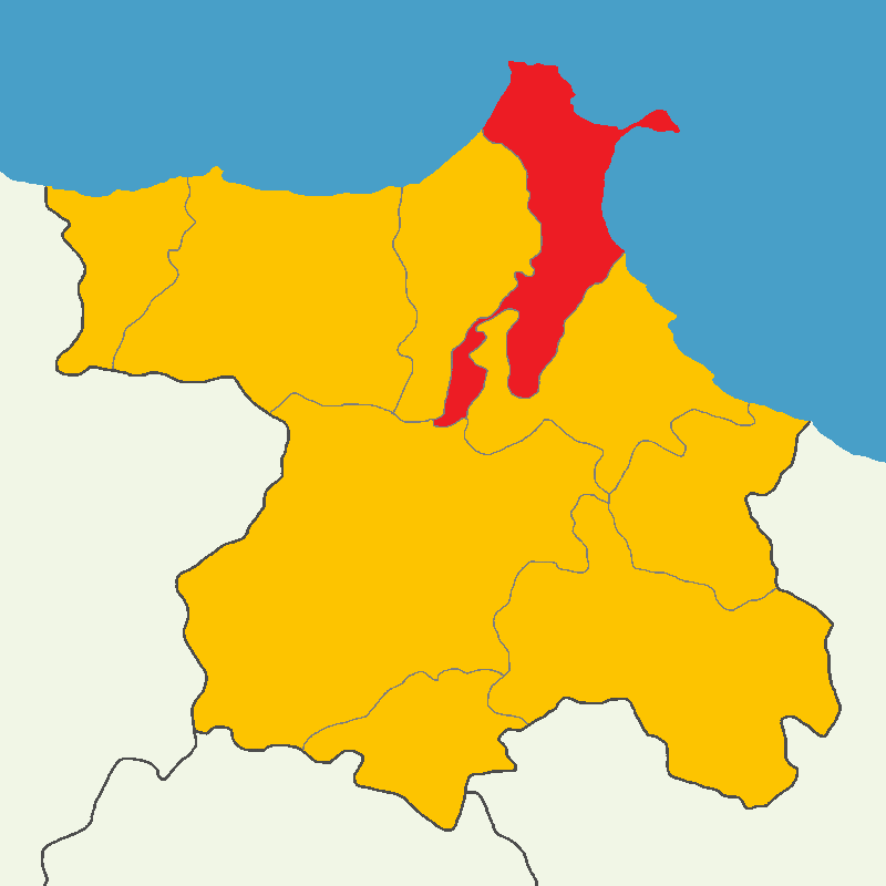 Sinop'ta 2014 Türkiye cumhurbaşkanlığı seçimi sonuçları